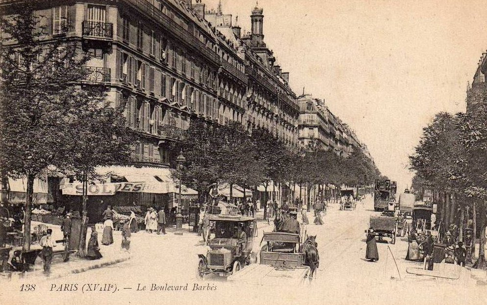 circa 1900